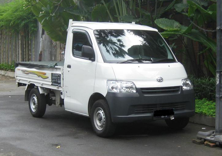 Daihatsu Gran Max 1.3 DLi Pick-up, photographed in Jakarta, Indonesia. The same vehicle is sold in Japan as Toyota LiteAce (S402 series).